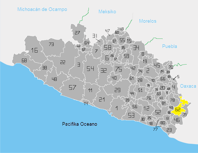 locator map 062